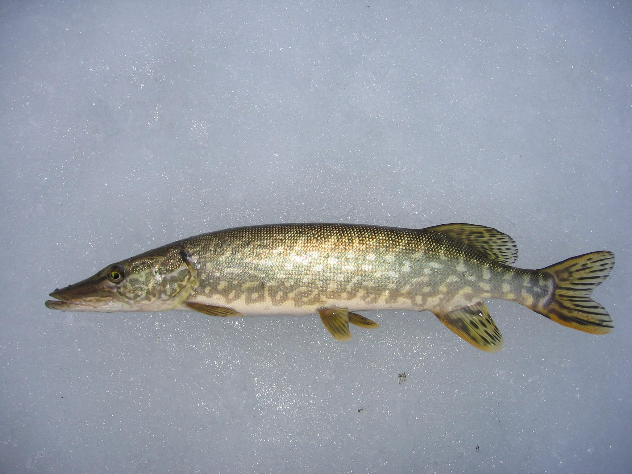 Esox on snow